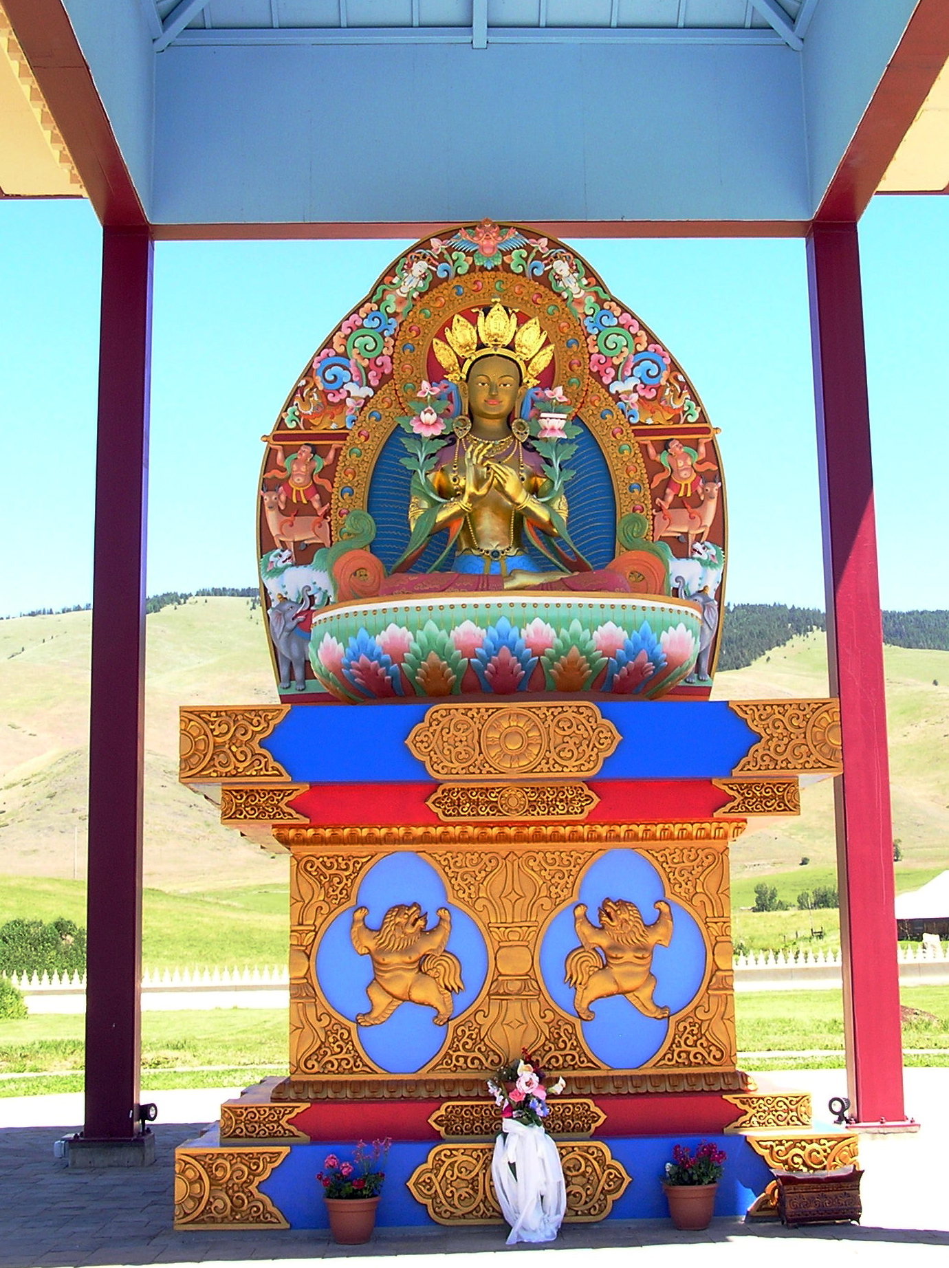 The Garden of One Thousand Buddhas, near Arlee, Montana Yum Chenmo, or Prajnaparamita, Transcendent Perfection of Wisdom.